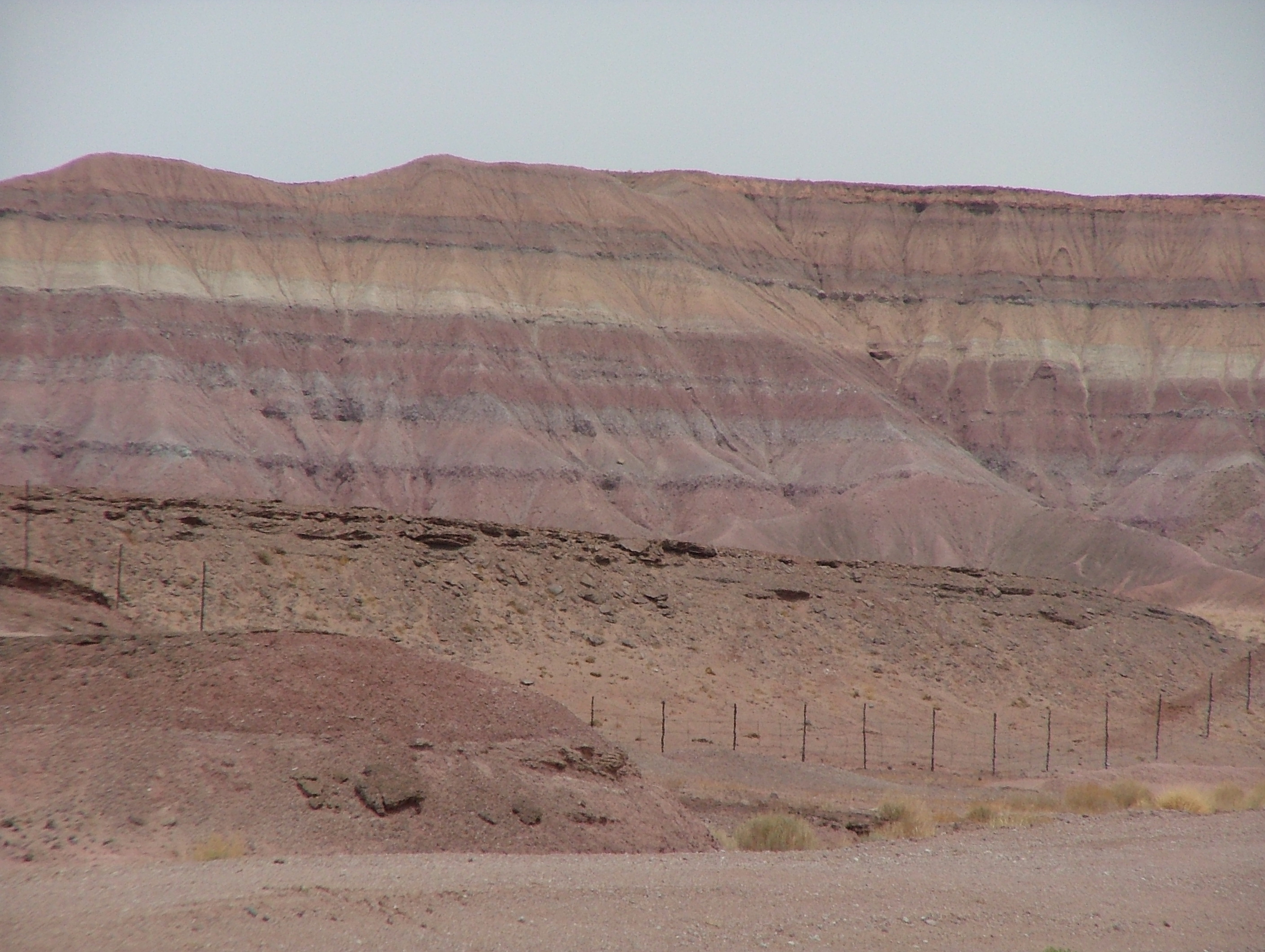 From Painted Desert, near Cameron, Arizona